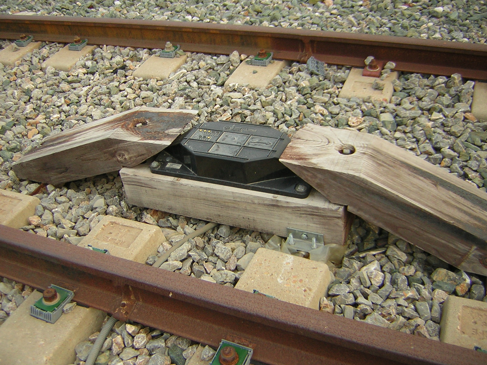 ASFA balise, part of the Automatic Warning System of the spanish conventional rail network